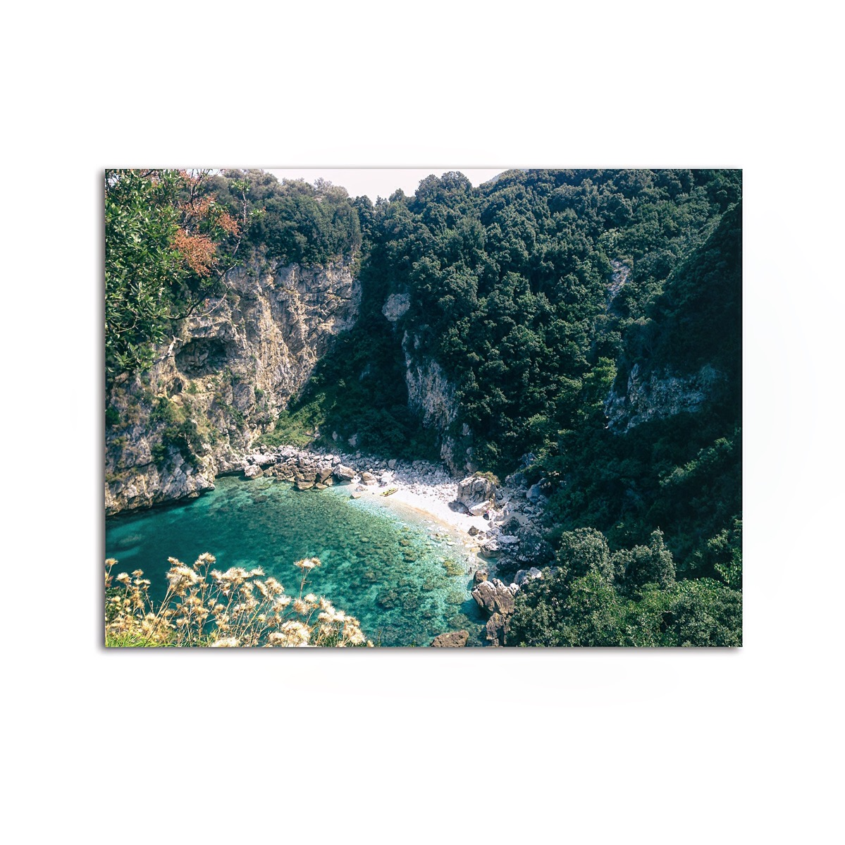 This is a photography of Natura 2000 protected area with ID GR1430001